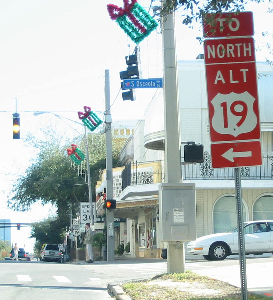 Red US 19 Alternate shield in Clearwater, Florida. View from the intersection of Cleveland Street and S. Osceola Avenue, looking east along Cleveland Street.